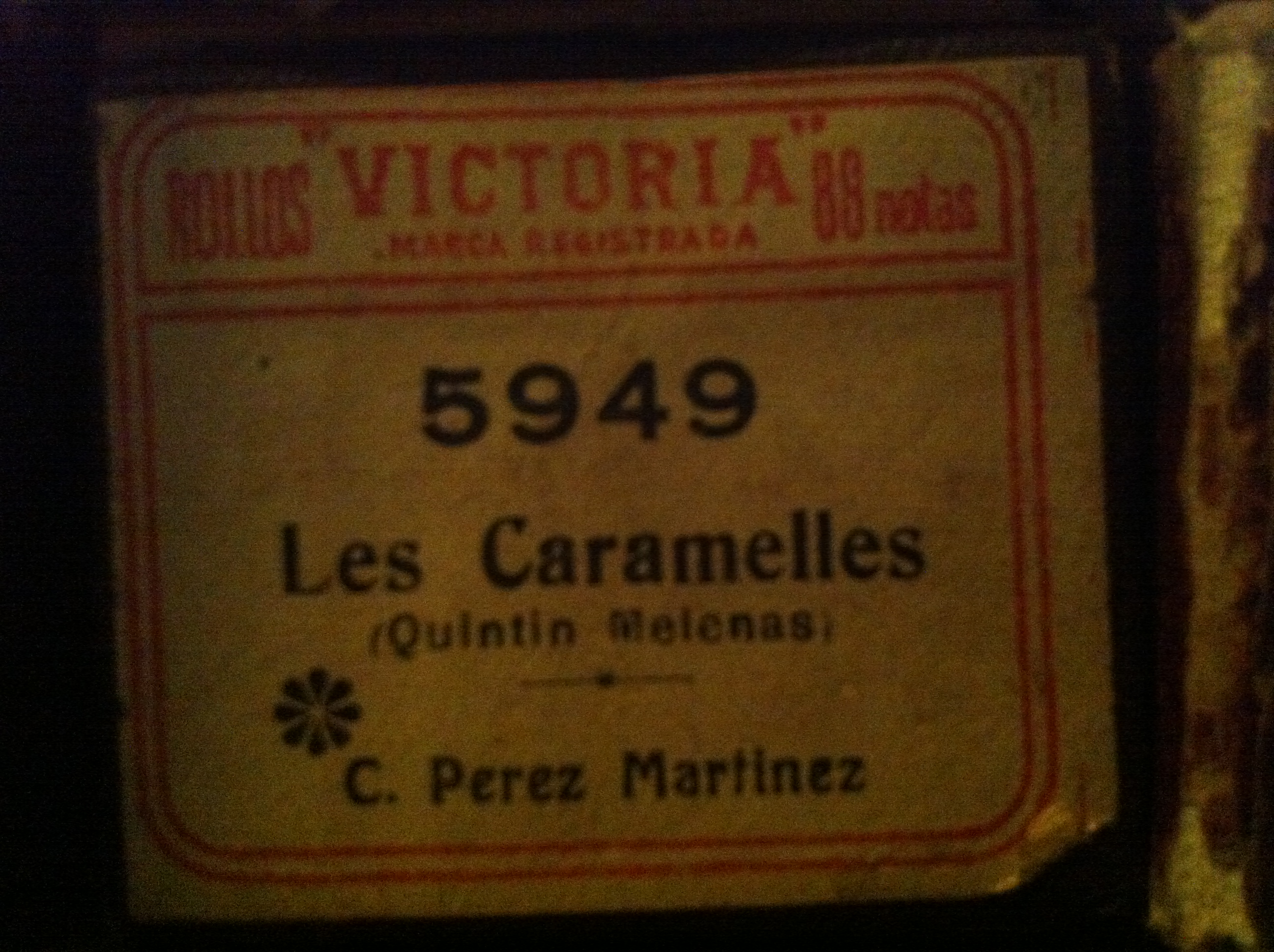 Pictures of an exhibit about The Paral·lel avenue in Barcelona that took place in CCCB cultural center between october 2012 and feb 2013. El Paral·lel emerges from the project to extend the city designed by Ildefons Cerdà. From its birth, a series of contradictory urban planning regulations facilitated the appearance of ephemeral buildings and the conversion of this street into a dense area of leisure and entertainment. The result was a leisure district for the masses, perfectly comparable to those existing in other major European urban agglomerations at that time, but that immediately became a genuine cultural expression of the social and political conflict that characterised the Barcelona of the early 20th century. El Paral·lel generated shows with perfectly differentiated contents and formats, made up by the audience and the artists. This exhibition will explain, therefore, why a new entertainment area emerged in the city, leading the weight of the theatrical axis to move from the Plaça Catalunya-Passeig de Gràcia area to the Nou de la Rambla-Paral·lel area.